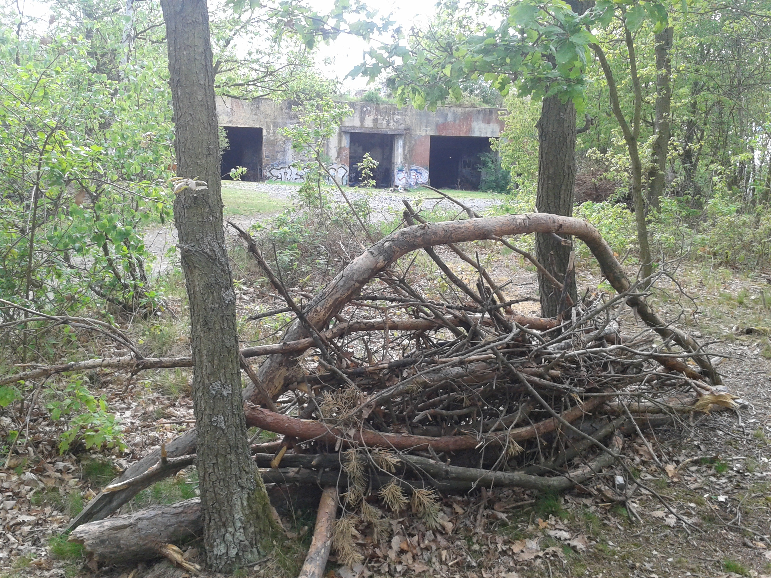 Airsoft playground Točná in the former military area of the 11th anti-aircraft missile section of the 71st Anti-Aircraft Missile Brigade of defence of the City of Prague.